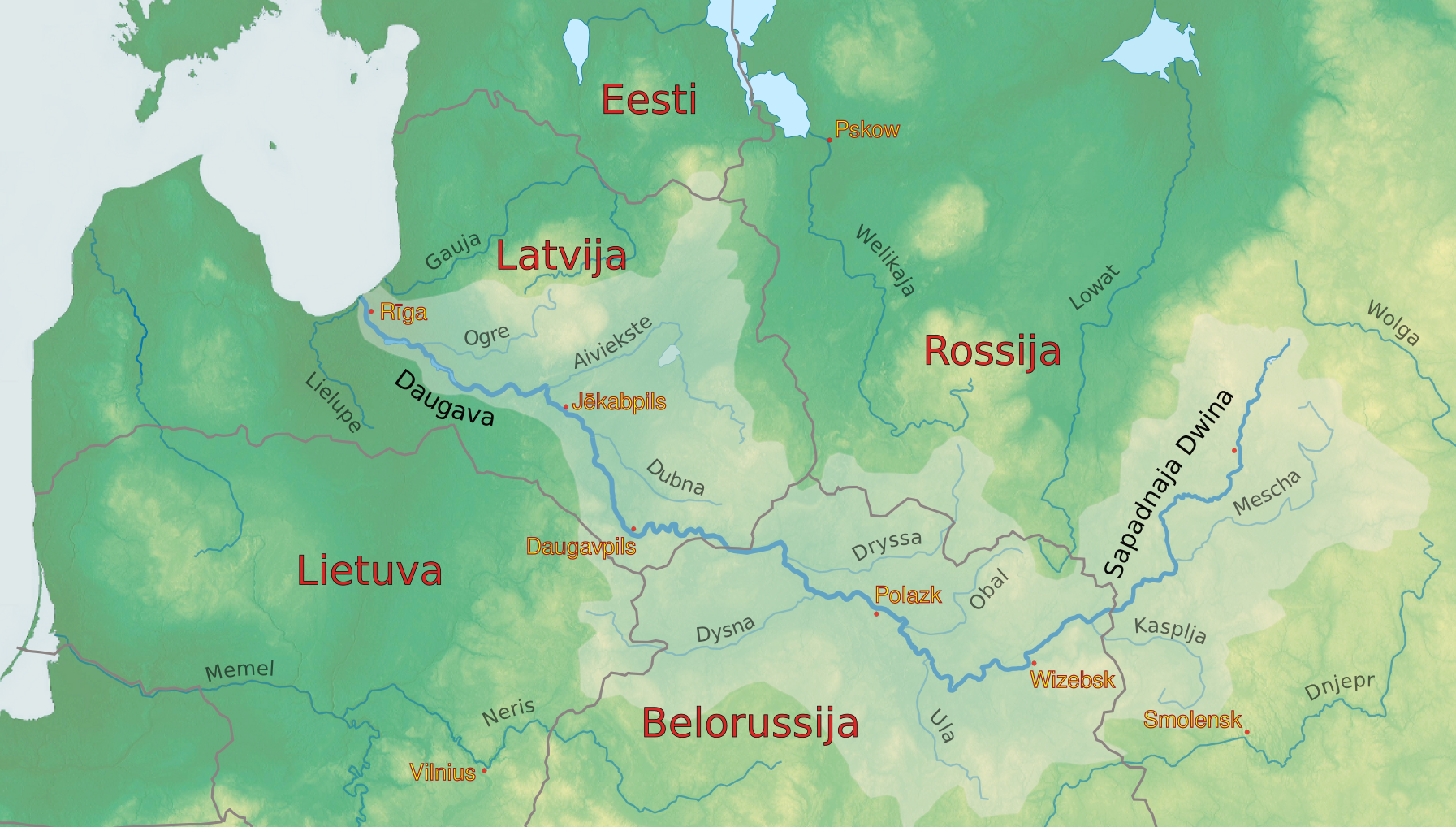 Map of river Daugava/Dvina/Düna in Eastern Europe. Based on File:Zapadnaya Dvina.png by СафроновАВ and map-layers of